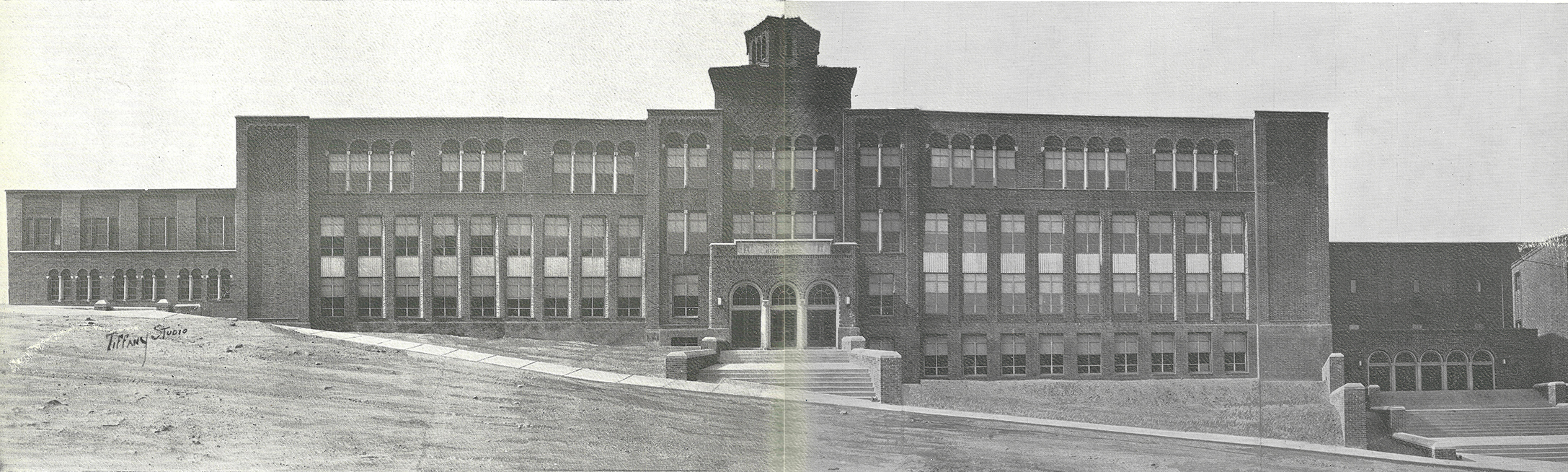 Pottsville High School after completion of consturction in 1932.